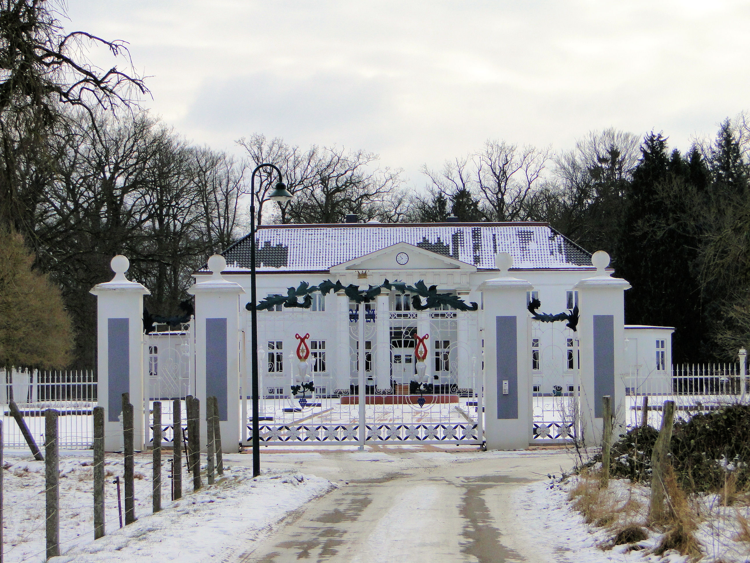 Manor house in Lehsen, district Ludwigslust-Parchim, Mecklenburg-Vorpommern, Germany